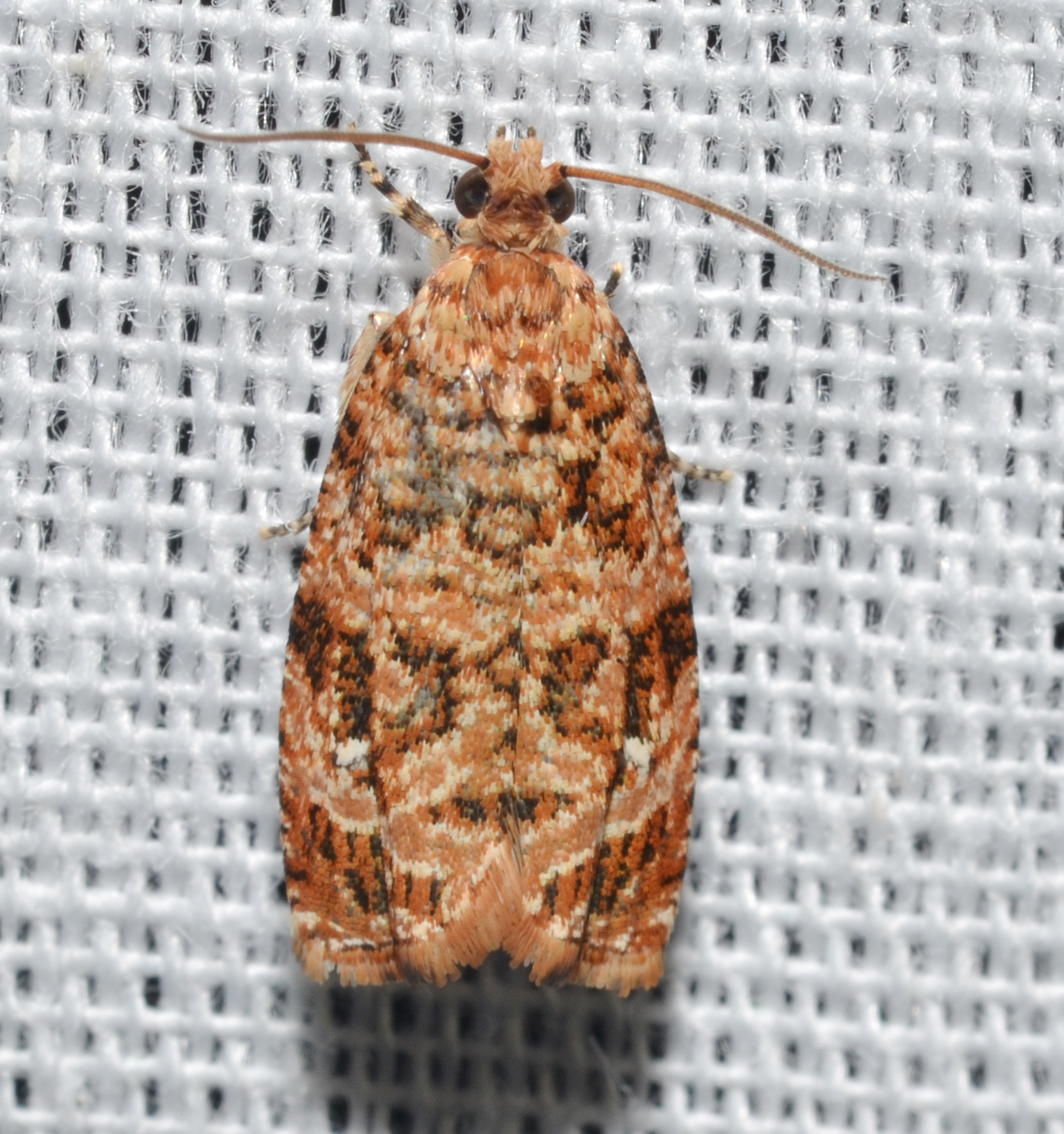 Cuivre River State Park 4/17/15